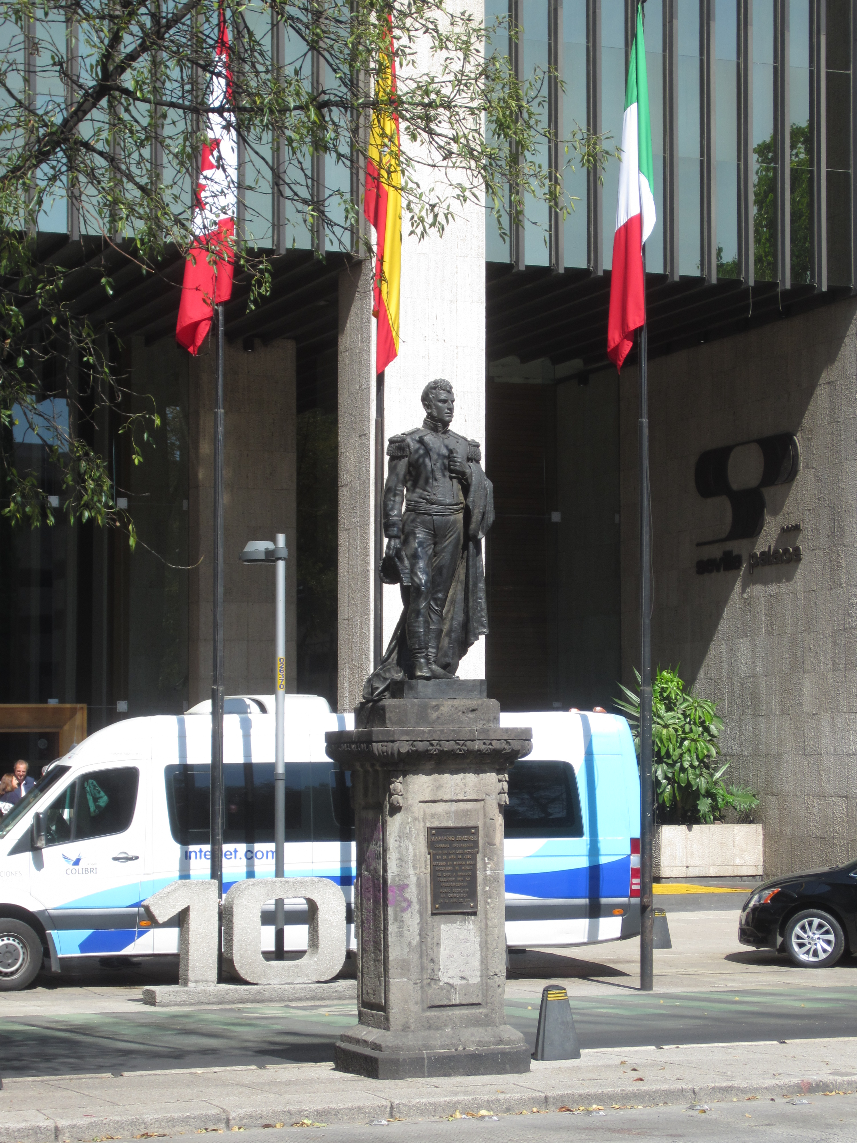 Mexico City (2018)